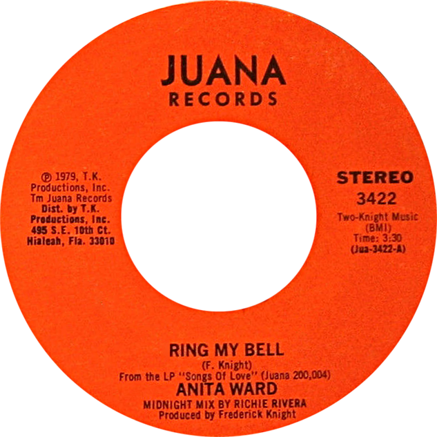 "Ring My Bell" by Anita Ward US vinyl red label A-side